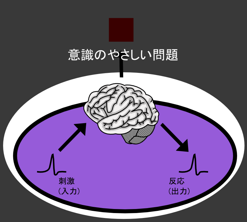 Diagram of easy problem of consciousness, Japanese version.